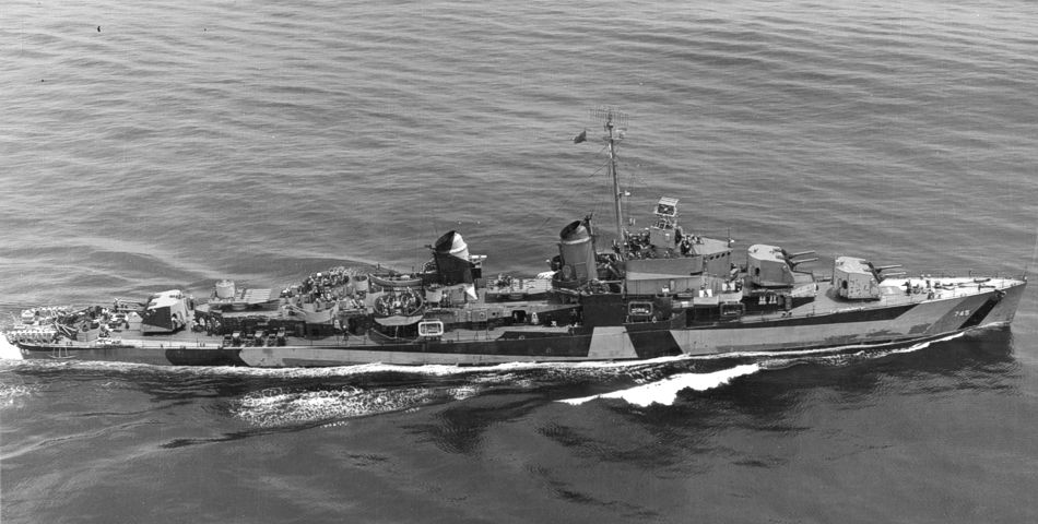 The U.S. Navy destroyer USS Brush (DD-745) underway on 22 May 1944.